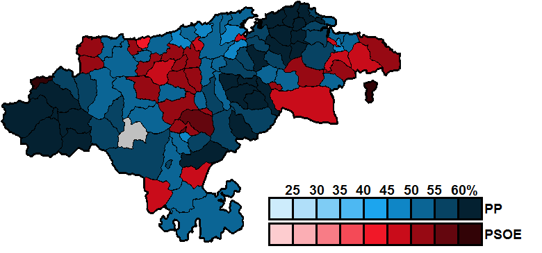 Most-voted party in Cantabria municipalities, showing vote share obtained, in the Spanish general election, 2008.